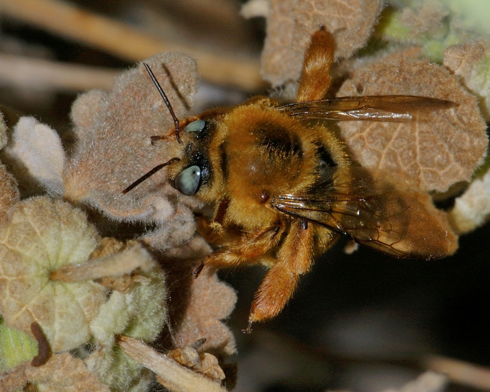 Female Xylocopa (Proxylocopa) olivieri, resting after copulation. Hermon, Israel/Syria, July 9, 2011.